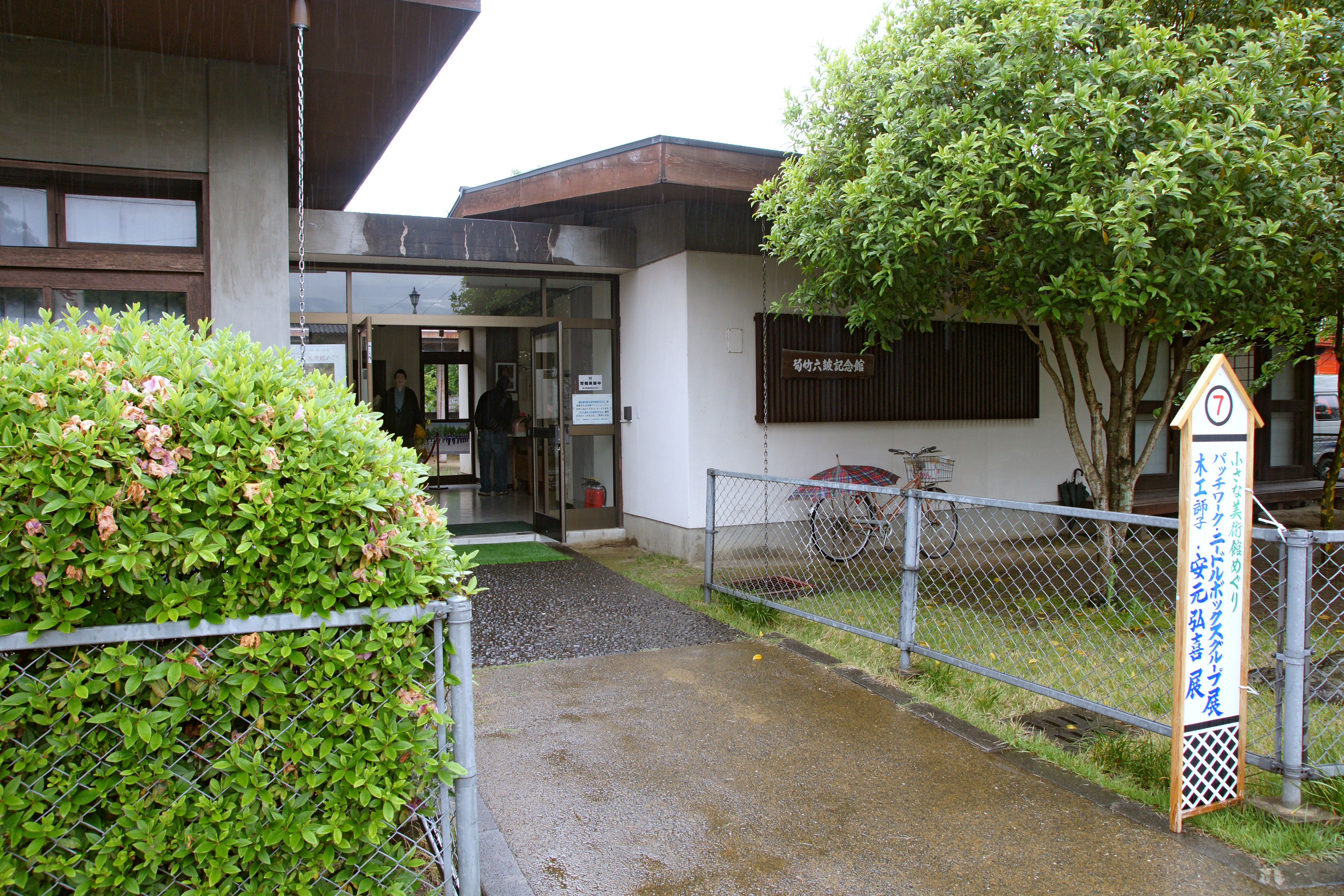 Kikutake Rokko Kinennkan, Ukiha, Fukuoka prefecture, Japan